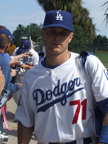 Lucas May 10:05, 29 January 2009 . . Officerfrank . . 375×500 (117 KB)